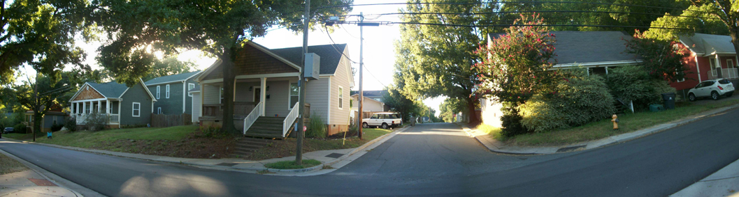 North Charlotte's Neighborhood in Highland Mill Village Houses